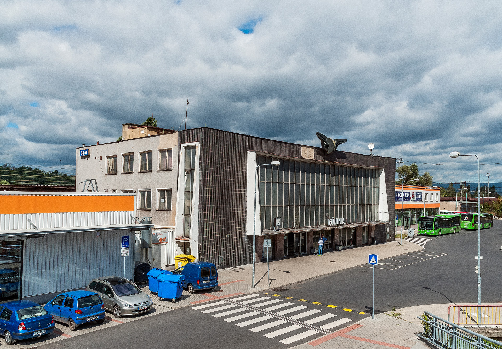 Train station Bílina; photo taken in August 2015